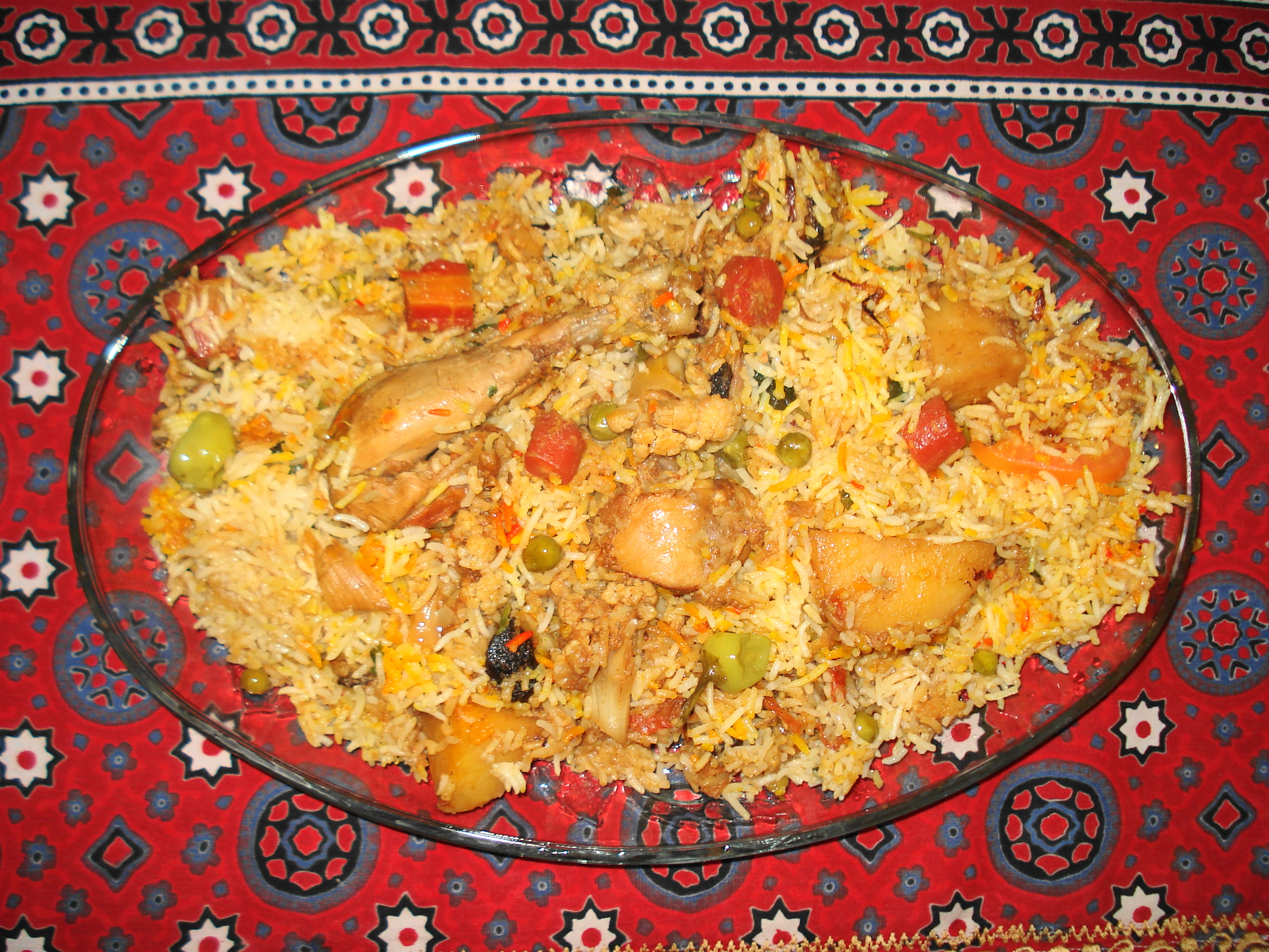 Sindhi Biryani is a delicious Dish of Sindh